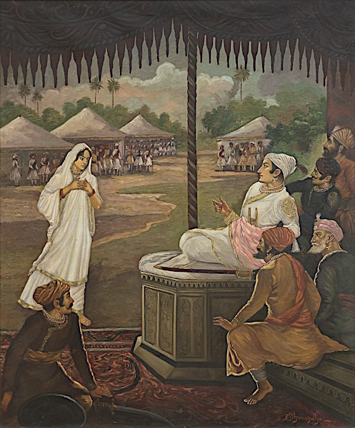 Lot 36 | Rao Bahadur M. V. Dhurandhar (1867-1944) Sambhaji & Kubkullus Medium Oil on canvas , 1921 Signature S/d in English ‘Mdhurandhar 1921’ l.r. Size 48.4 x 40.2 in (123.0 x 102.0 cm) Provenance Provenance The Manvendrasingh Gohil of Rajpipla Collection; by descent from Maharaja Sir Vijaysinhji of Rajpipla who in turn directly acquired it from the Artist Rao Bahadur M.V. Dhurandhar (Also see printed 1972 letter from Ambika Dhurandhar, d/o M.V. Dhurandhar) Estimates ₹ 4,000,000 - 6,000,000 $ 59,700 - 89,550 Brought in / withdrawn Brought In